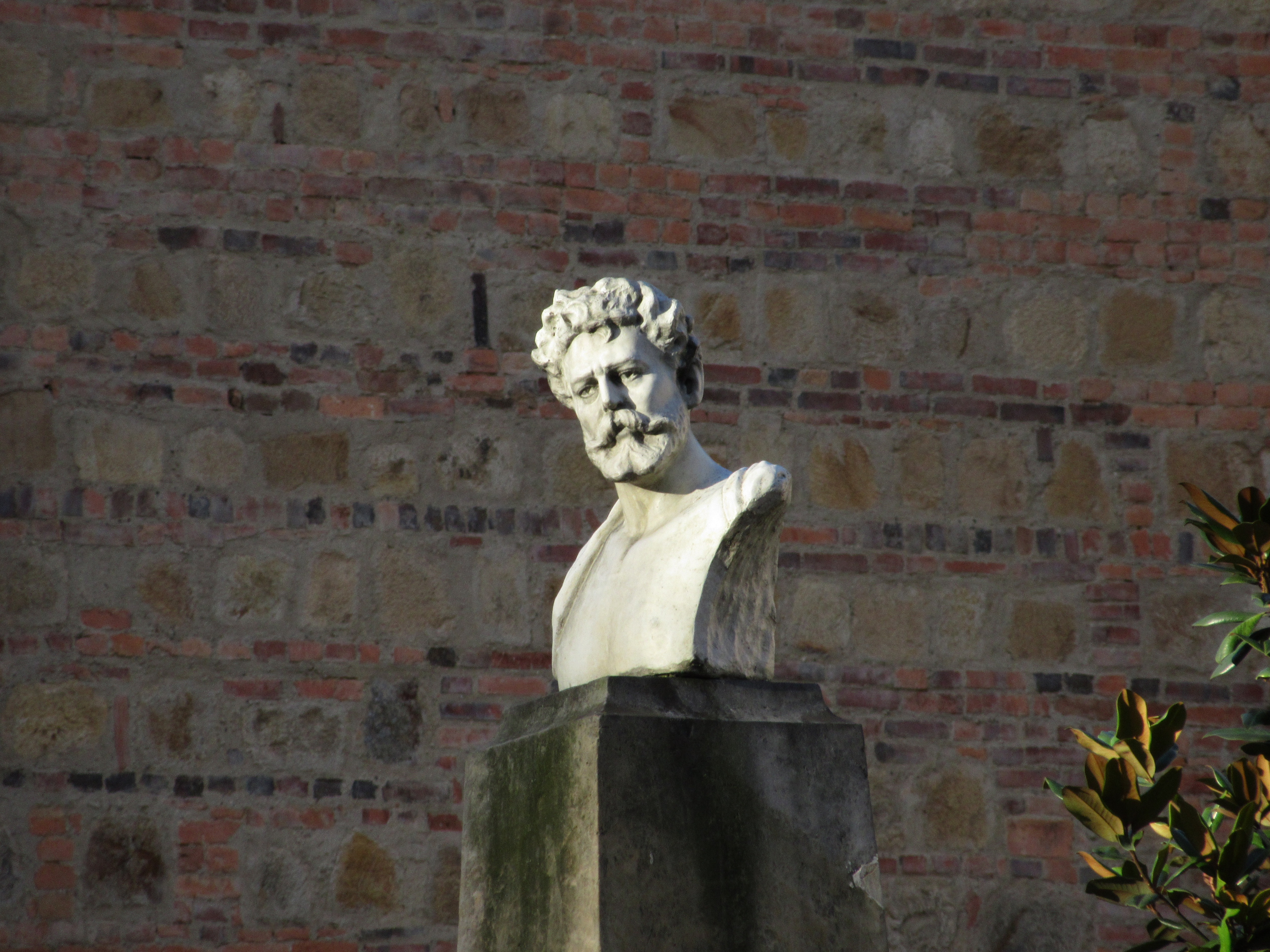 Bogotá